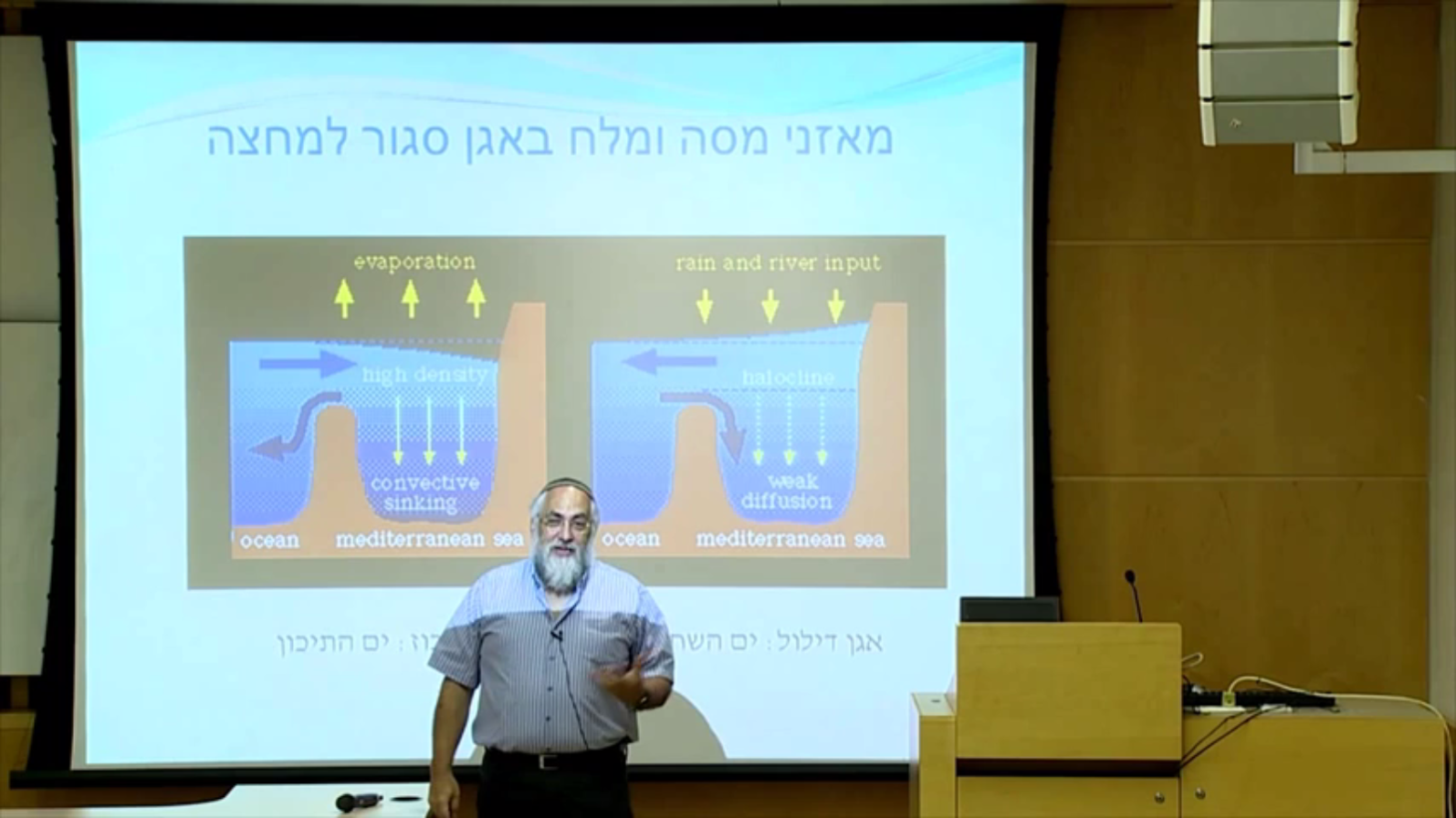 פרופ שלמה סטיב ברנר 1